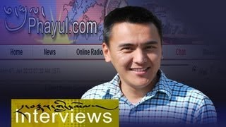 Sherab Woeser